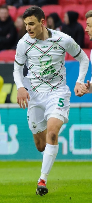 Filip Uremović with FC Rubin Kazan in a game against FC Rostov.